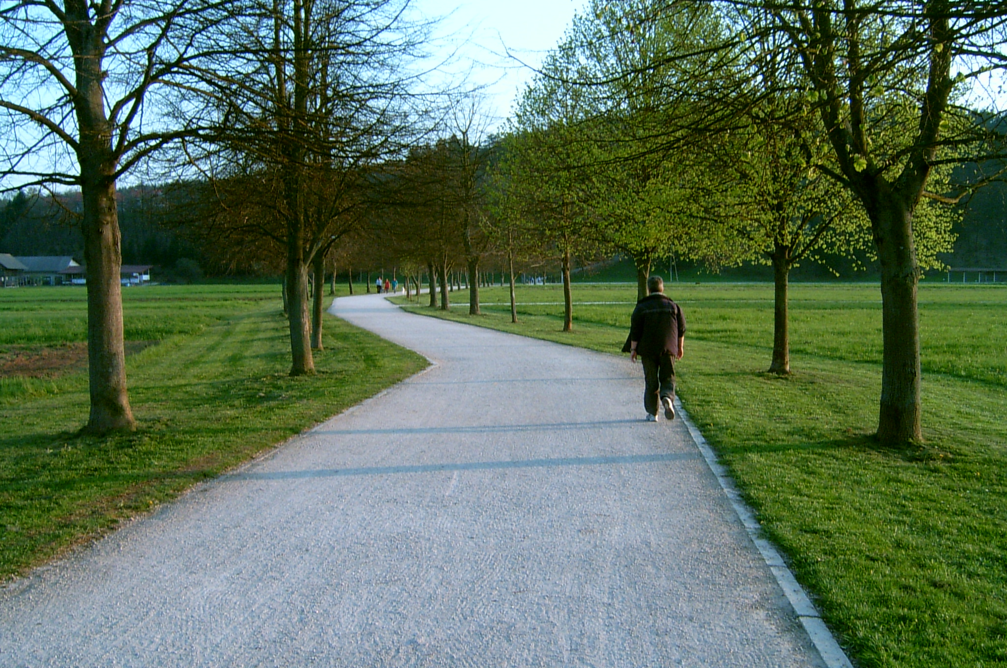 Trail of Remembrance and Comradeship